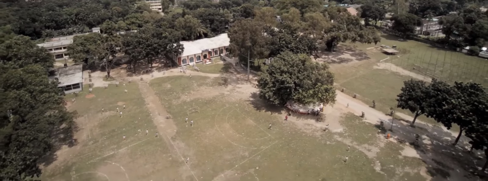 aerial view of rangpur zilla school